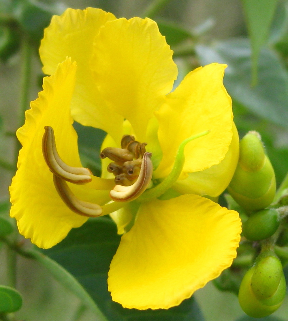 Monkey pod flower. The pods are sweet and are used to distill traditional liquor in Mozambique.